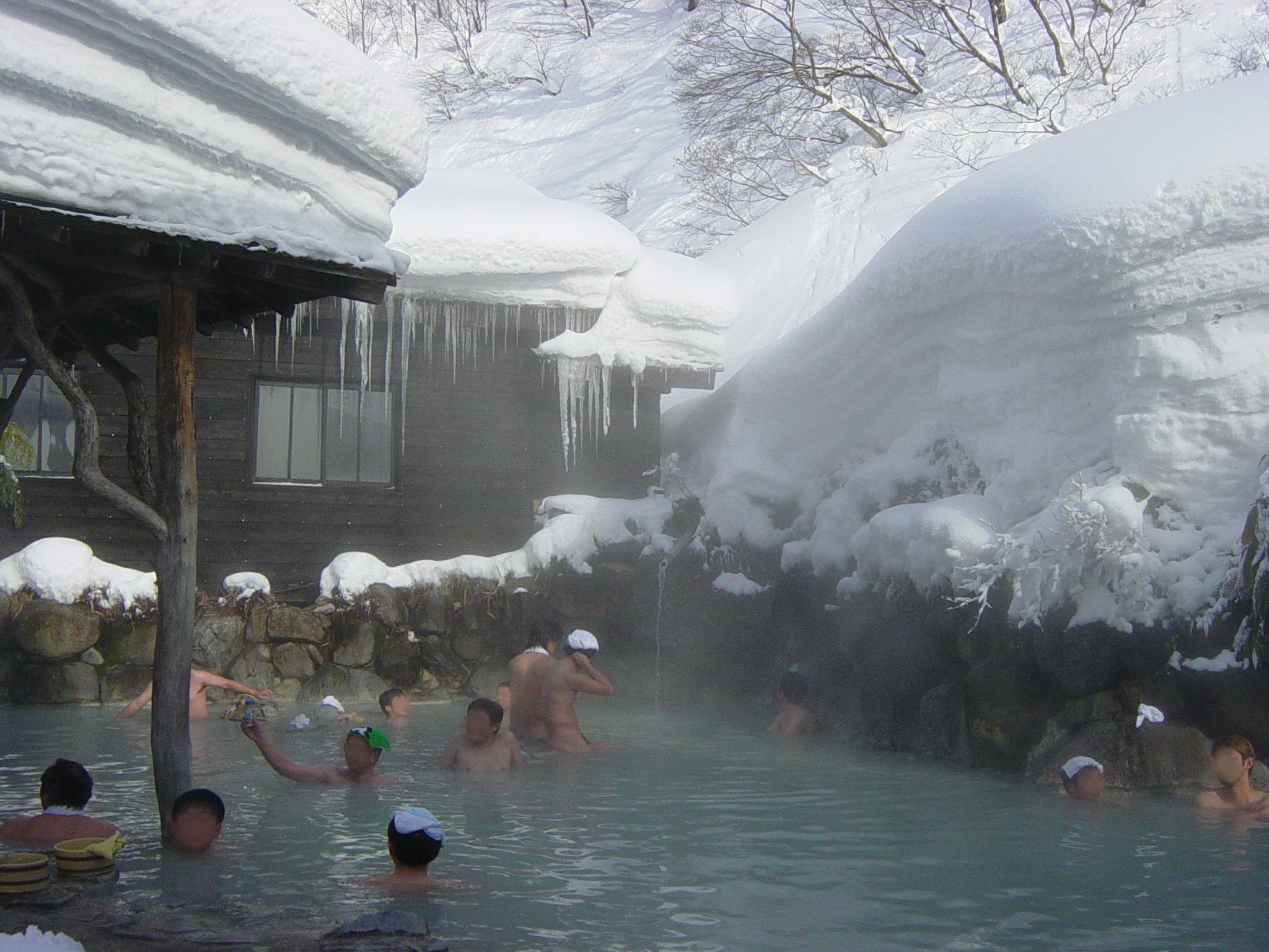 The Outdoor bath at Tsurunoyu Onsen, Akita Prefecture.